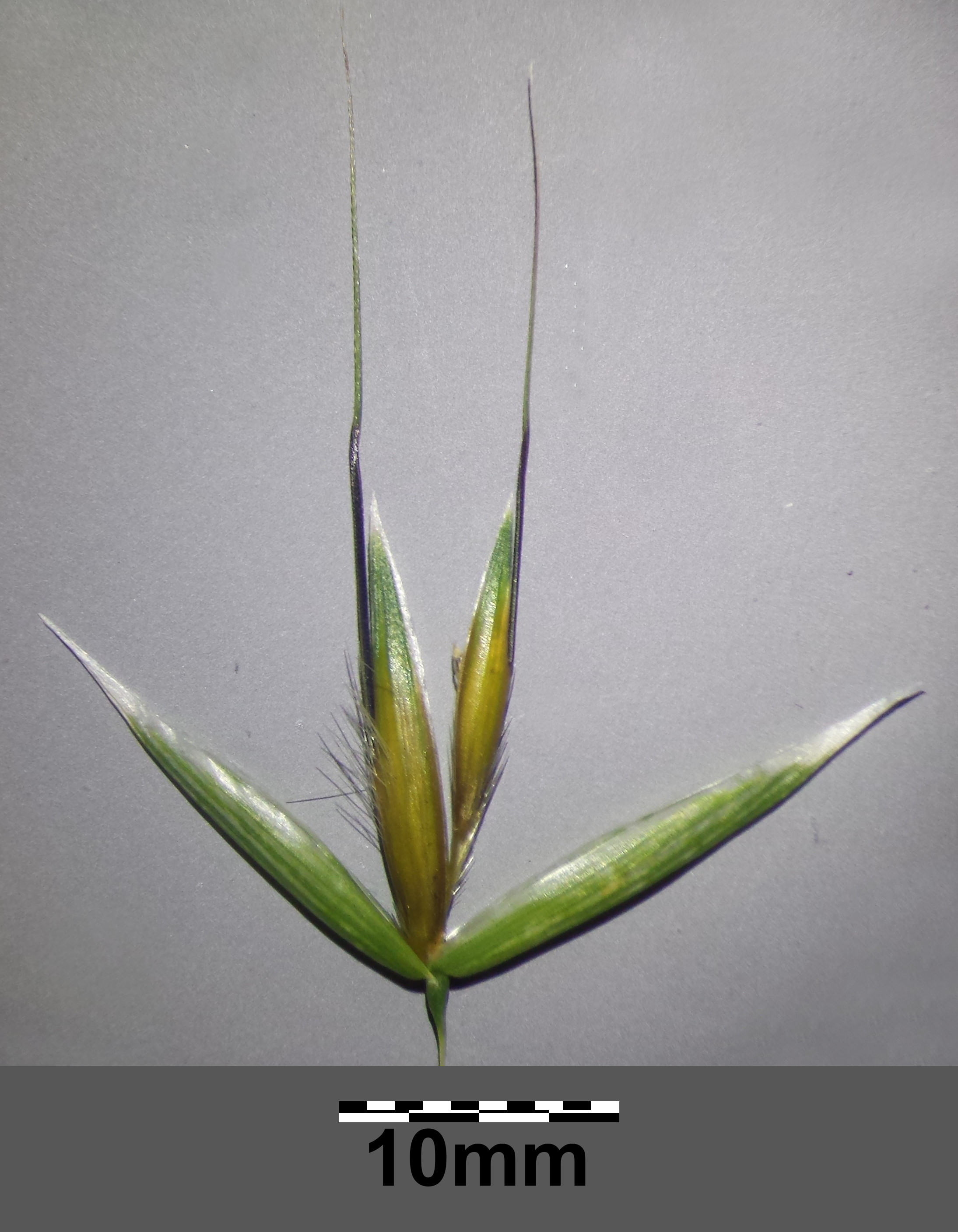 Spikelet Taxonym: Avena fatua ss Fischer et al. EfÖLS 2008 ISBN 978-3-85474-187-9 Location: next to Groß-Jedlersdorf cemetery, Vienna-Floridsdorf - ca. 160 m a.s.l. Habitat: border of a field